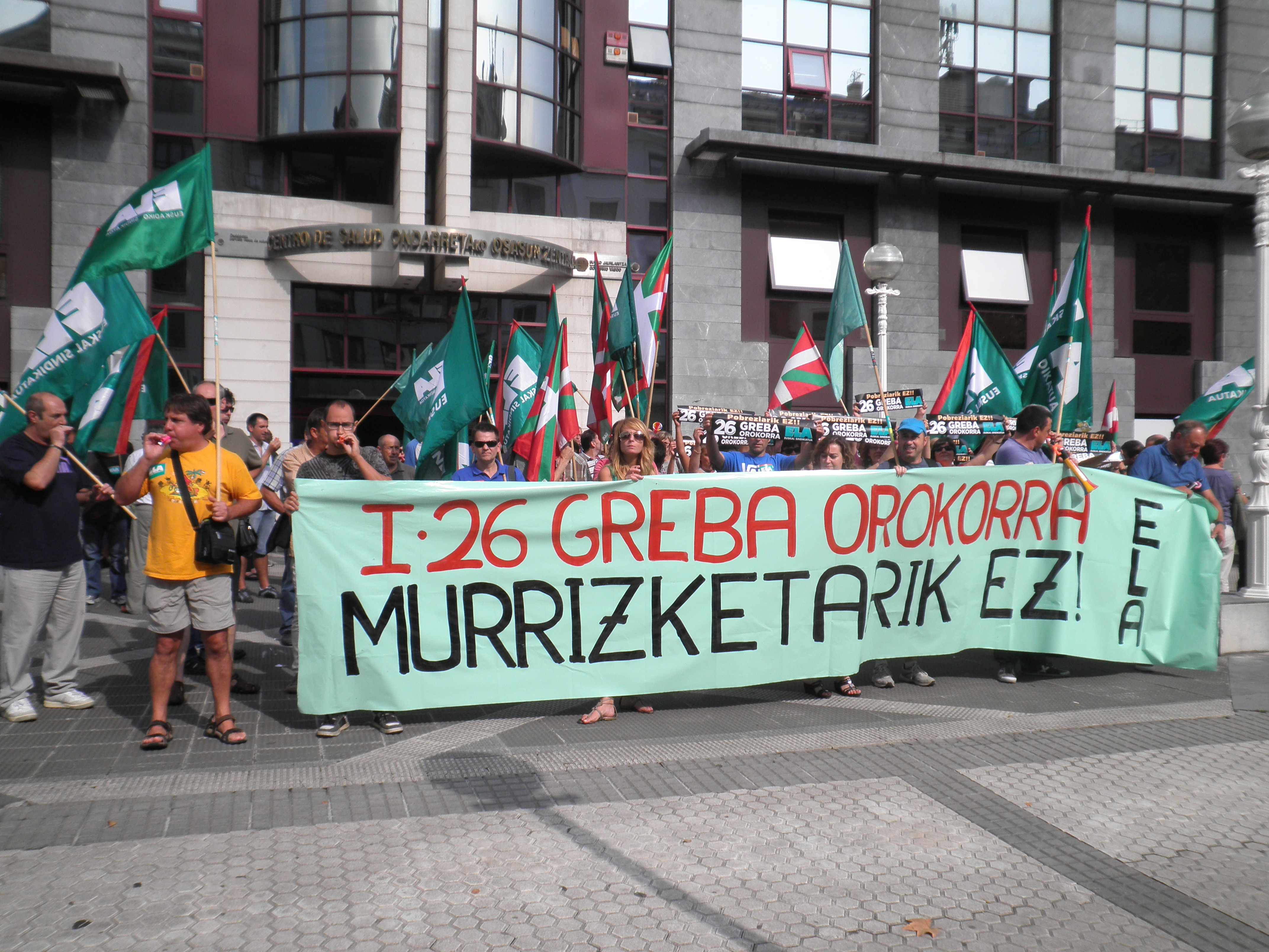 ELA supporting 2012-09-26 general strike.